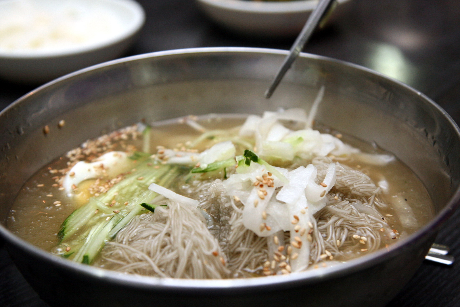 Mul naengmyeon, a buckwheat noodle dish in a cold broth. Served at a restaurant in South Korea